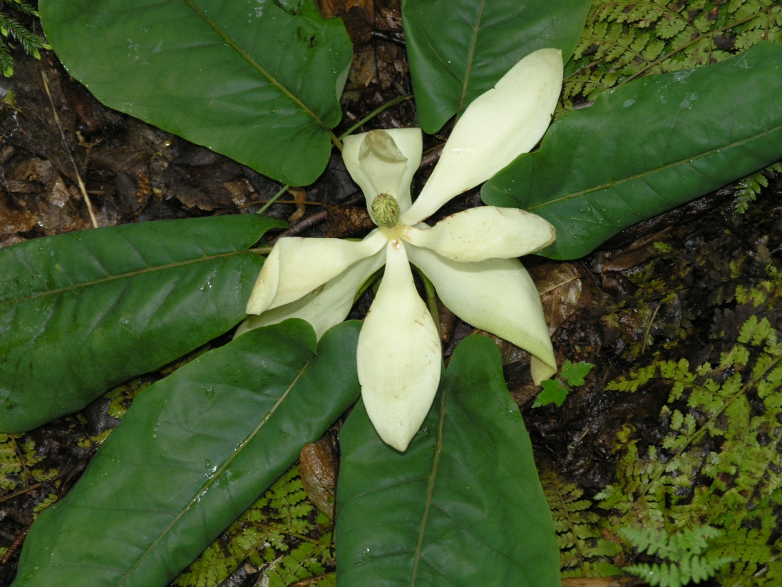 Magnolia fraseri flower and foliage. West slope of Spruce Mountain, West Virginia, USA.